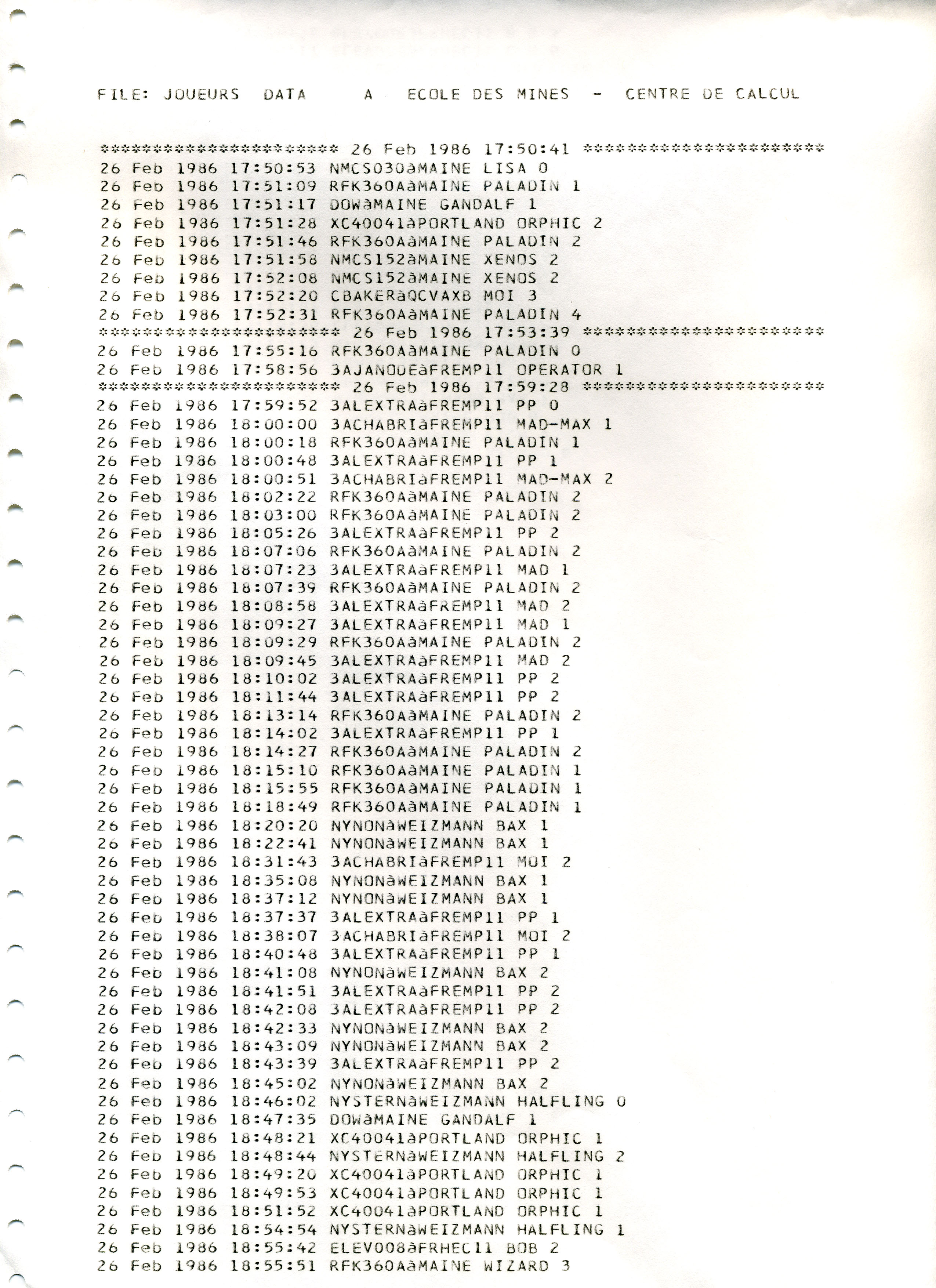 I am the author of this. Vincent Lextrait 08:10, 1 April 2007 (UTC)